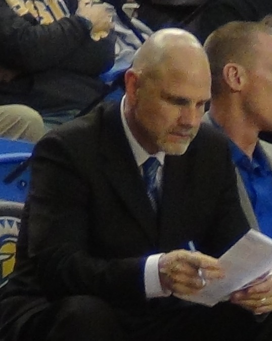 Boise State University men's basketball assistant coach Mike Burns during a game against San Jose State at the Event Center in San Jose, Calif. on Jan. 21, 2017.